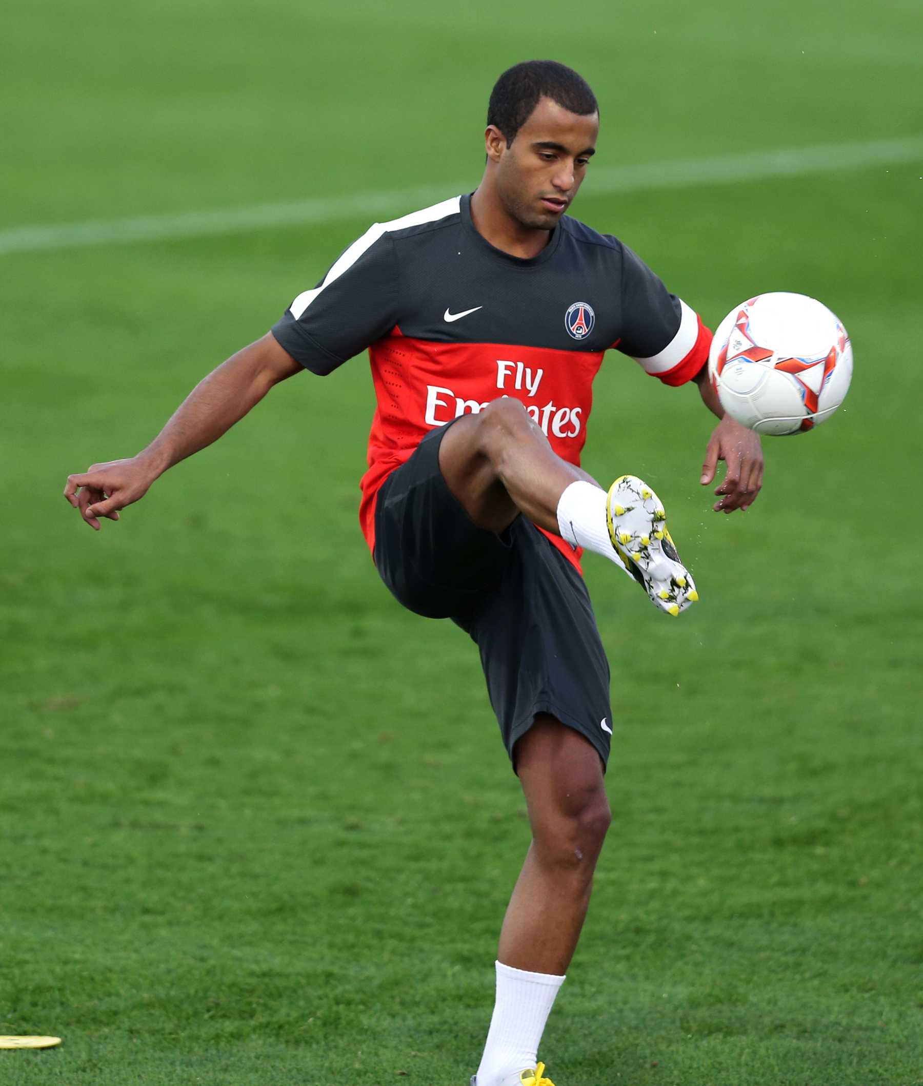 Lucas training in Doha with PSG